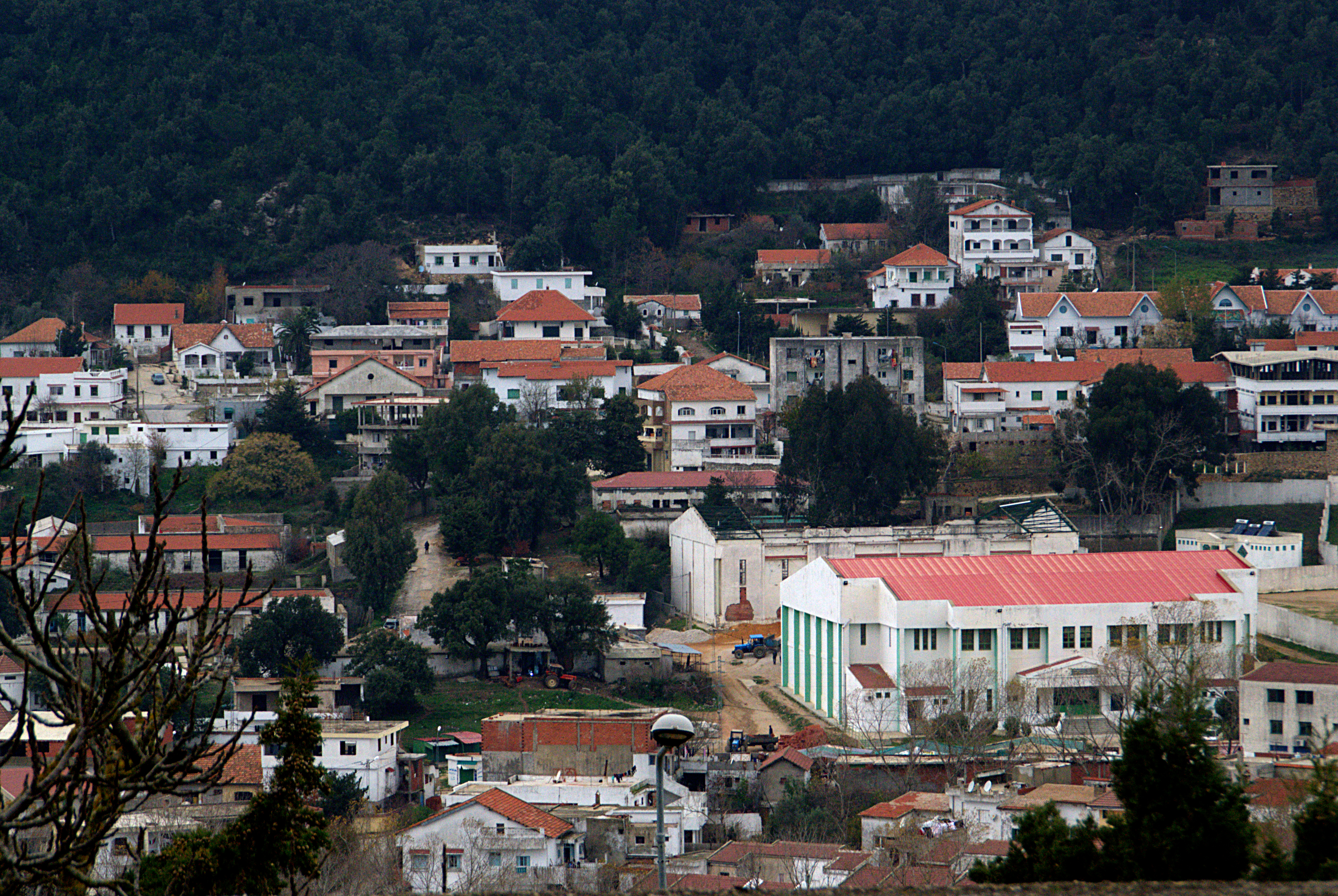 Photographs of Aïn Draham